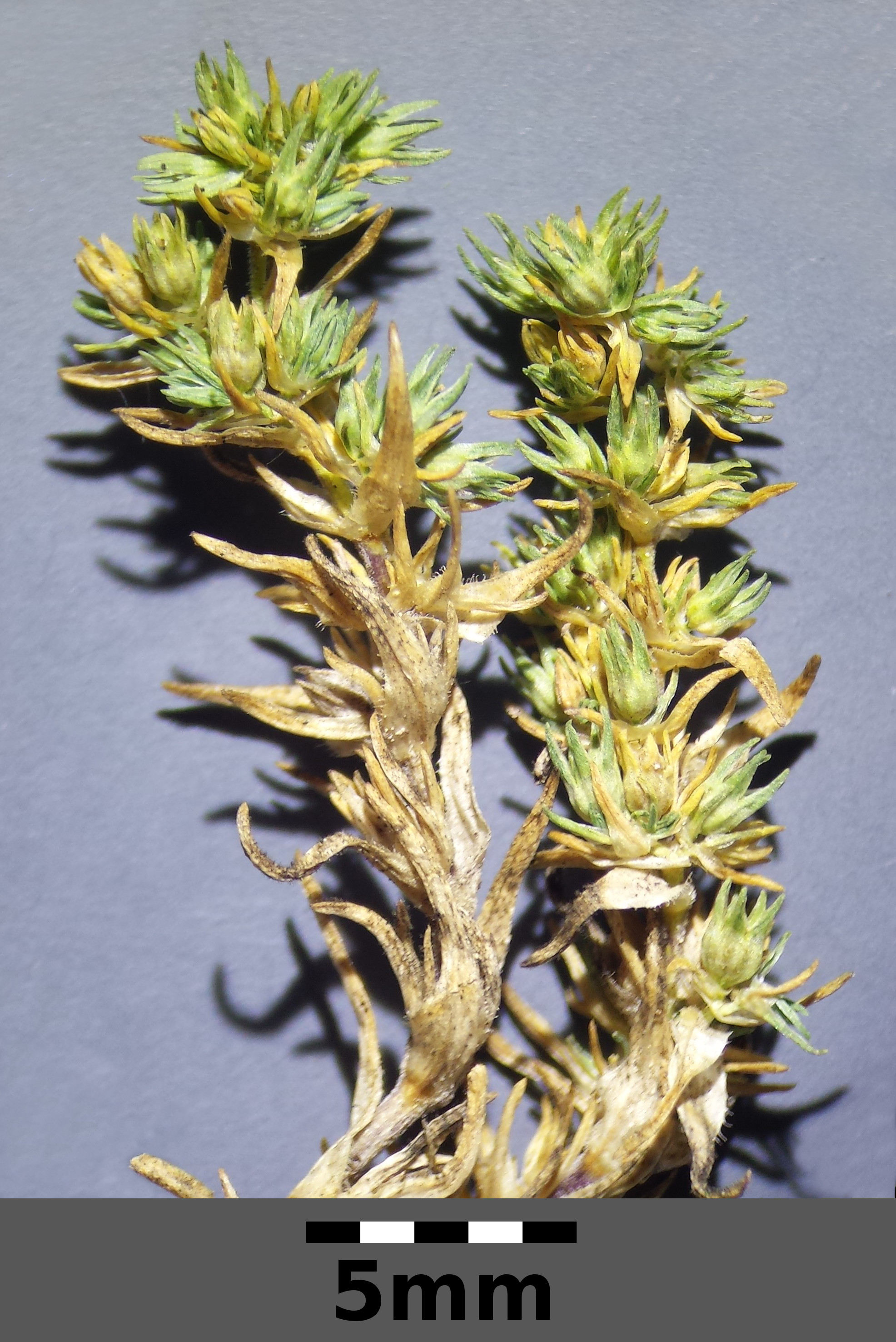 Habitus Taxonym: Scleranthus verticillatus ss Fischer et al. EfÖLS 2008 ISBN 978-3-85474-187-9; det. Gergely Király 2015-06-13 Location: Veszprém County, Hungary - ca. 200 m a.s.l. Habitat: sandy ruderal place